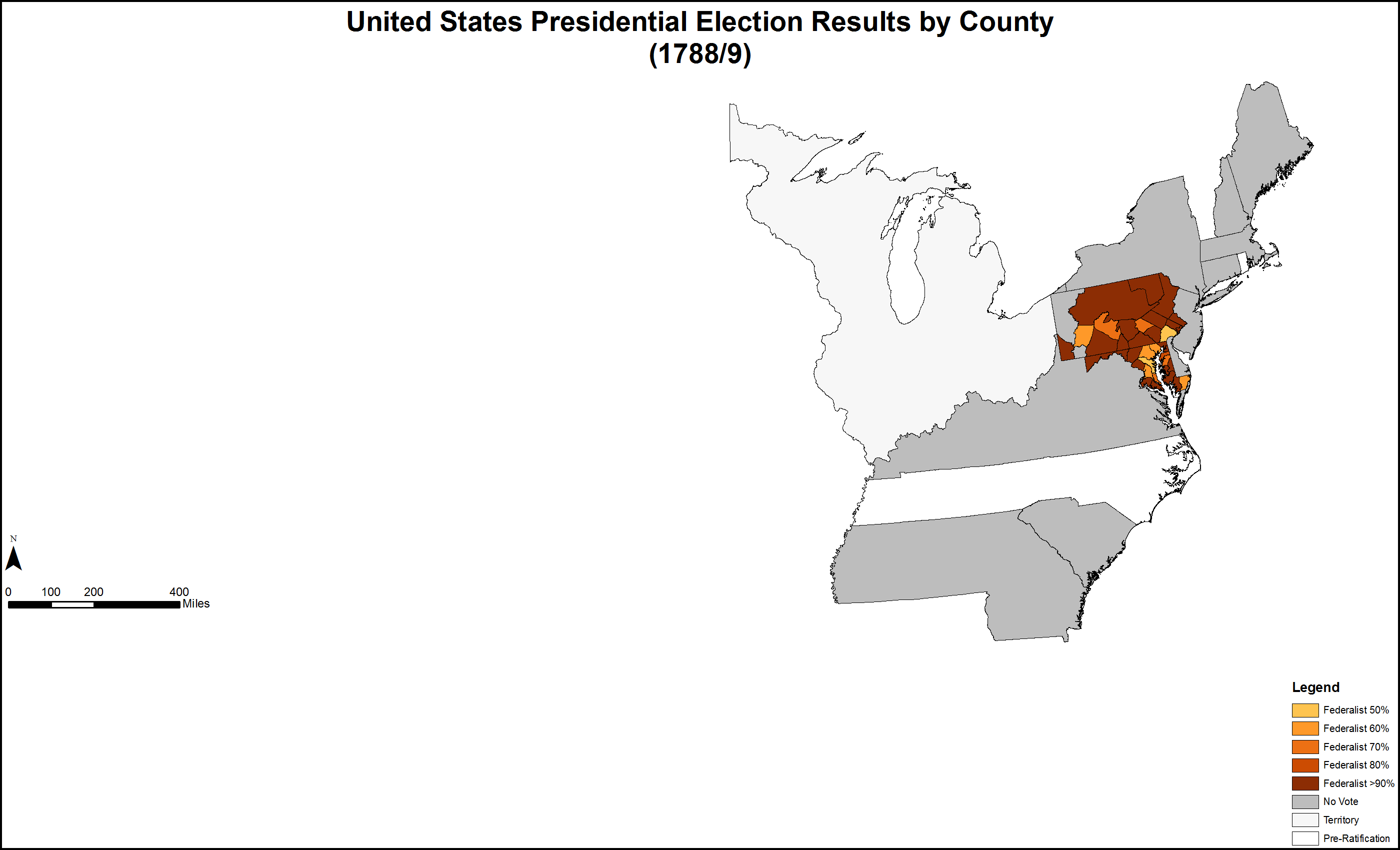 Presidential election results by county (1788/9).